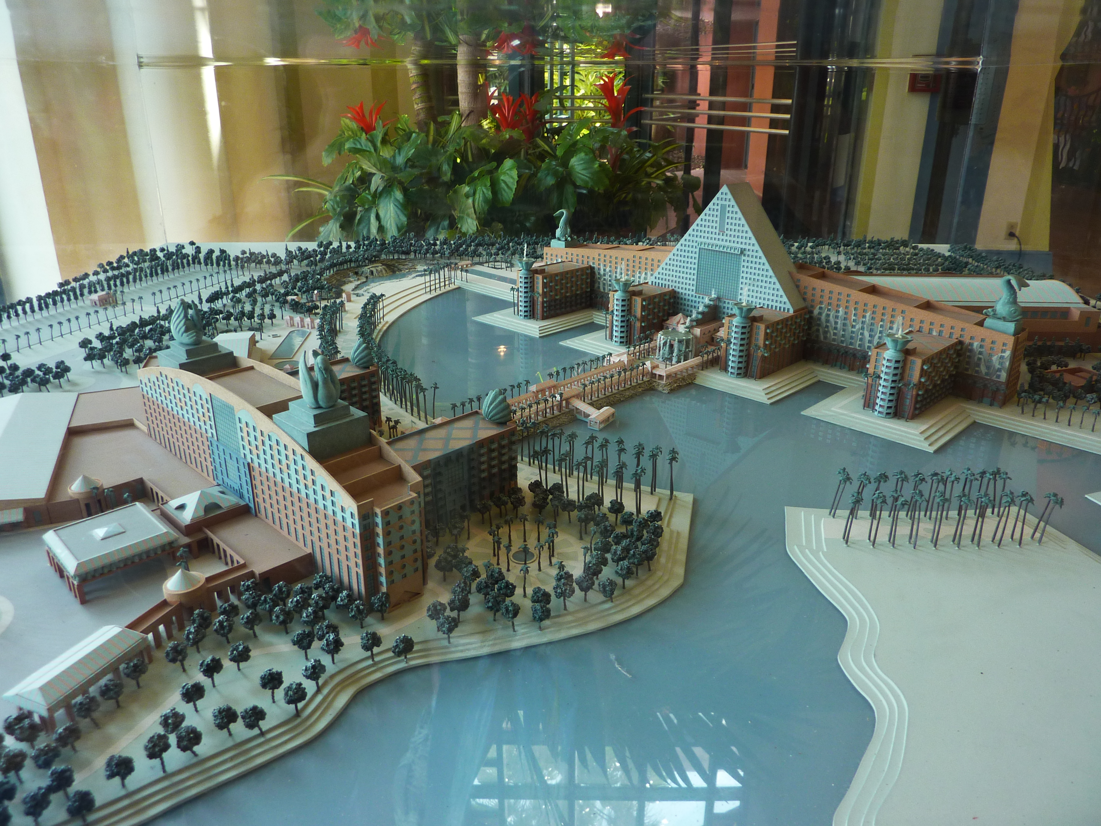 Scale model of the Walt Disney World Swan & Dolphin hotel complex in the Dolphin's main hall.